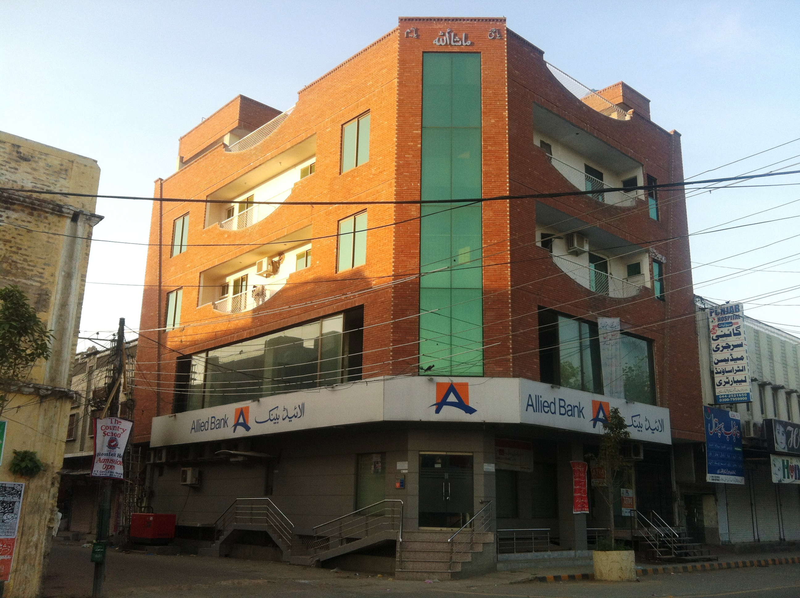 Allied Bank of Pakistan (ABL Tehsil Road, Okara Branch)